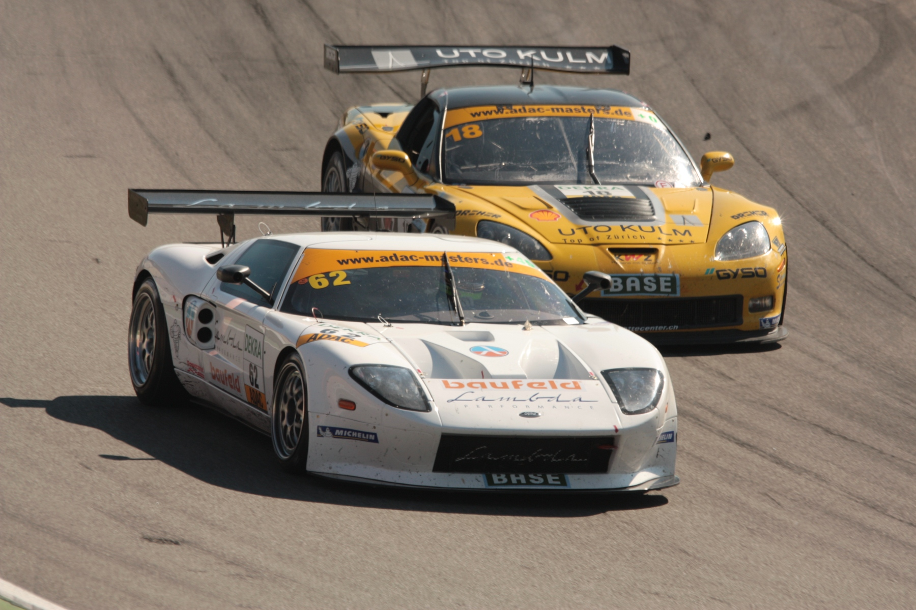 Thomas Mutsch in Ford GT fighting with Philipp Eng in a Chevrolet Corvette Z06.R at the first race of the ADAC GT Masters at Hockenheimring 2011.